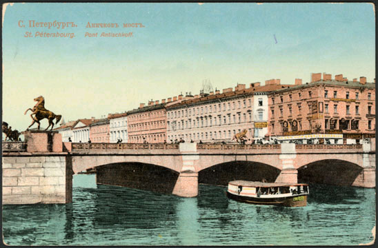 Old view of the Fontanka near the Anichkov Bridge.For other views of the same river click here and here.